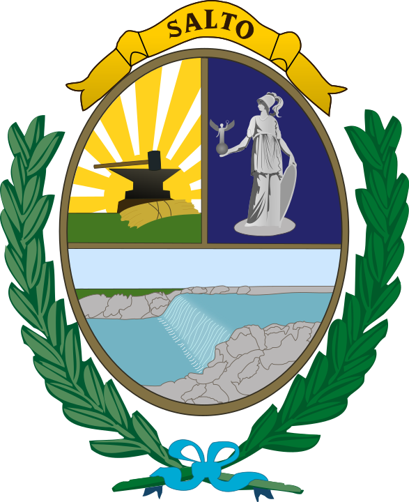 Coat of Arms of the department of Salto, Uruguay. Drawn by: Jordevi